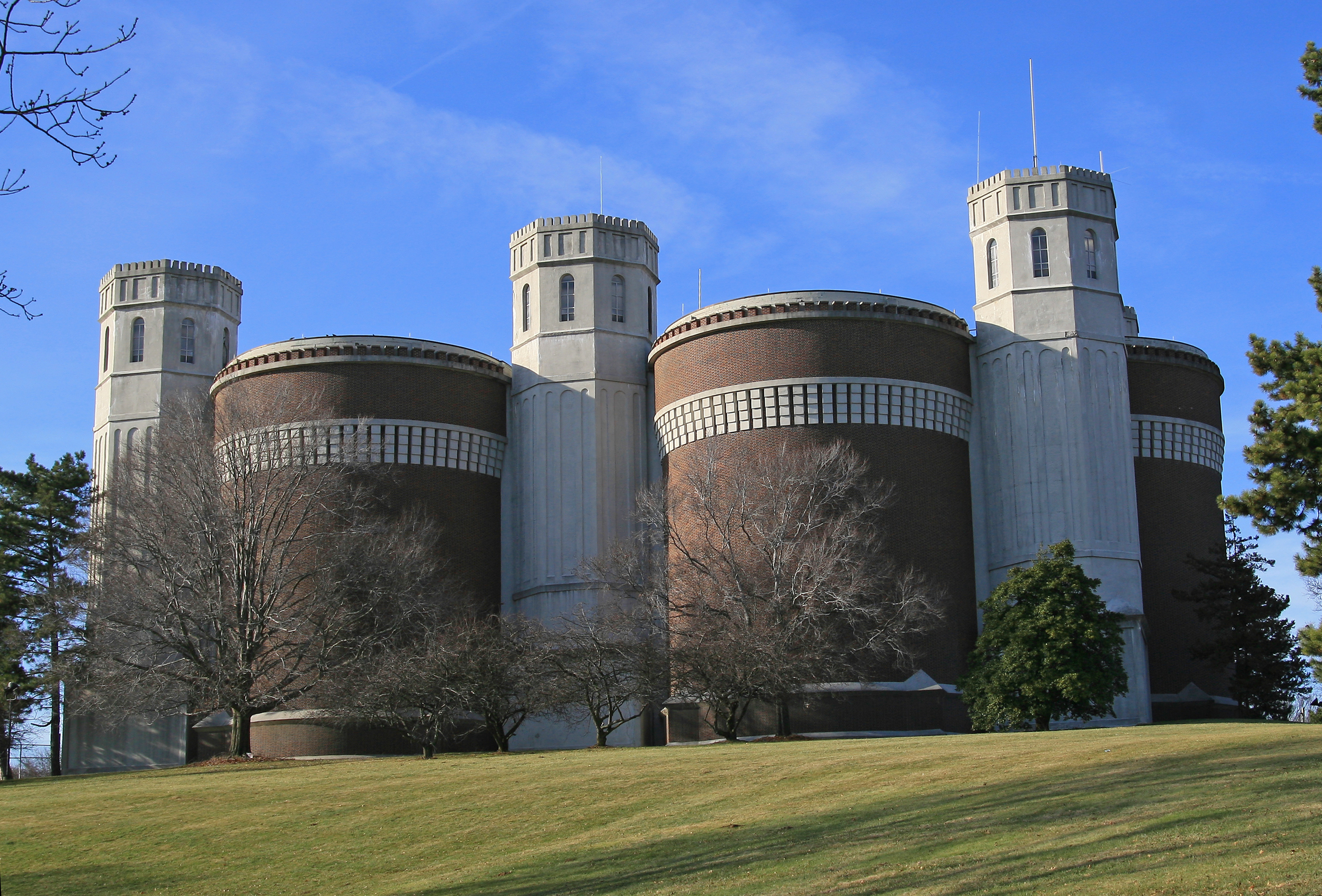 Mt. Airy water tower in Cincinnati, OH comprising 13 separate towers.